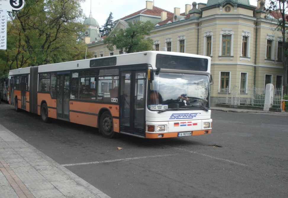 MAN NG 272 bus (reg. A 9871 KM) in Burgas, Bulgaria. Burgasbus (Бургасбуc ЕООД) operator.